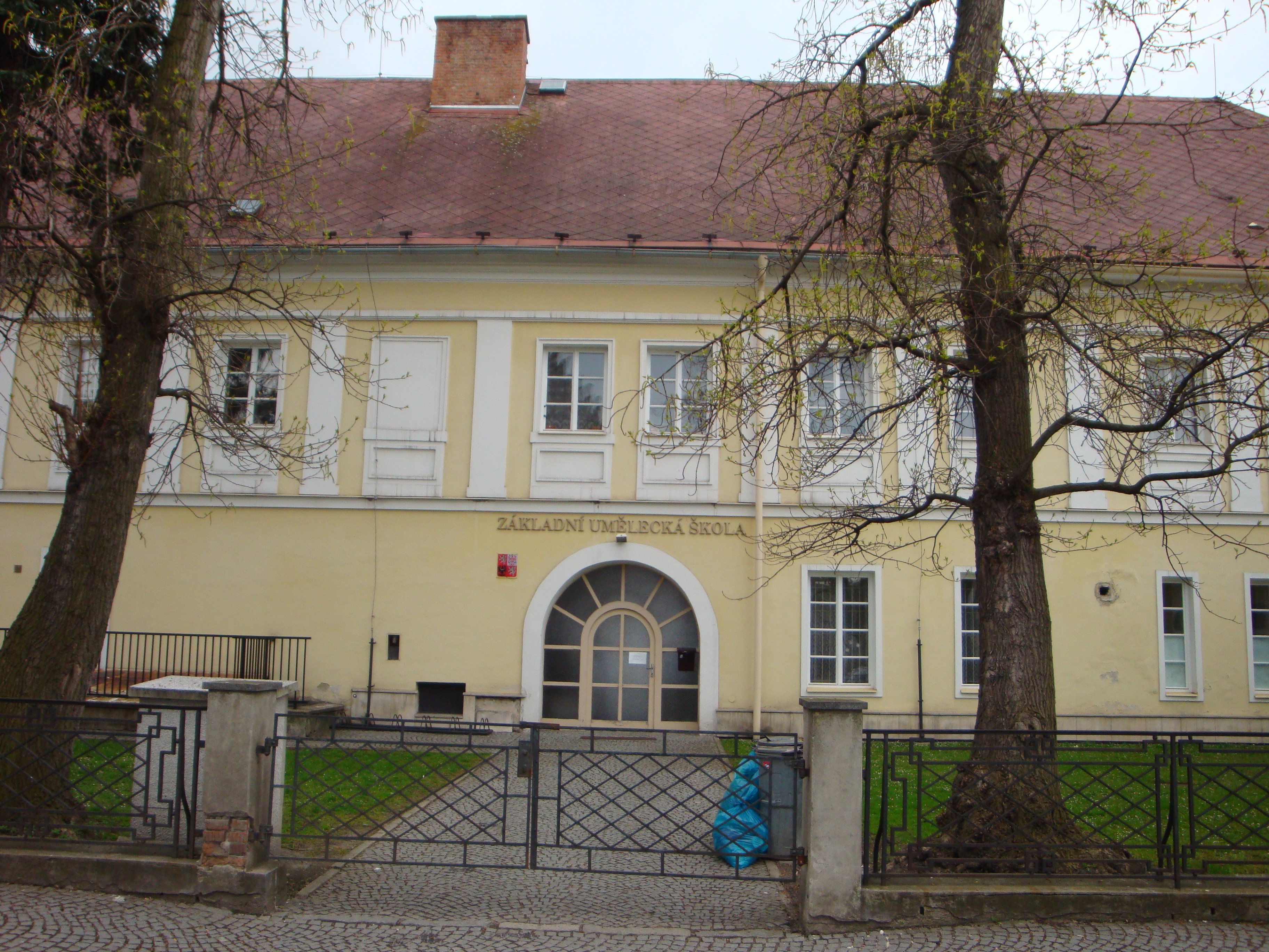 The school of art, Bruntal